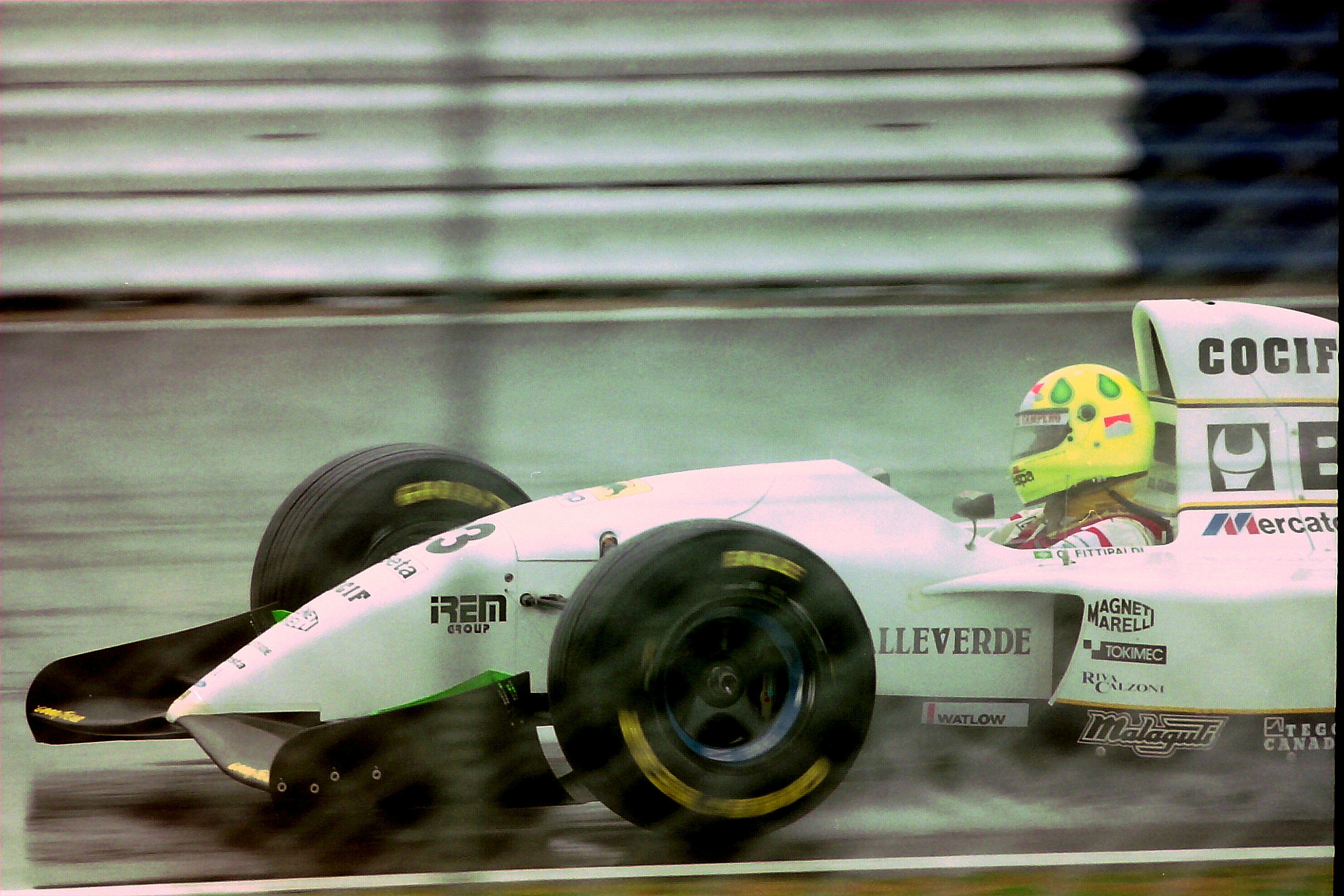 Christian Fittipaldi - Minardi M193 heading for Copse during practice for the 1993 British Grand Prix